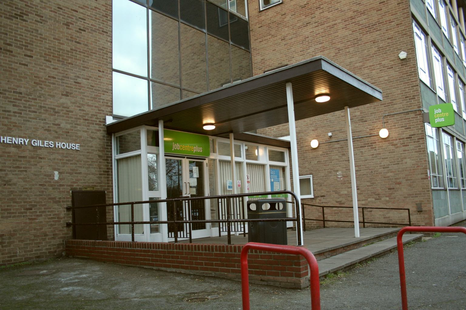 A Jobcentre Plus in Cambridge, England.